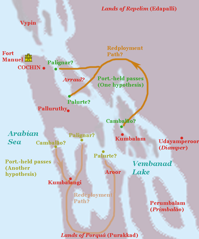 Map indicating some possible positions of the passes of 'Palignar' and 'Palurte', the positions held by the Portuguese forces under Duarte Pacheco Pereira against the Zamorin of Calicut during the Battle of Cochin in May-June, 1504. The map is highly conjectural, based roughly on the modern geography of Kochi and Vembanad lake, which has probably changed substantially since the 16th C. Dark Green dots = one possible hypothesis of the positions. Light Green dots = another possible hypothesis of the positions. Also shows required route of redeployment by the army of Calicut from their original position at 'Cambalão'.